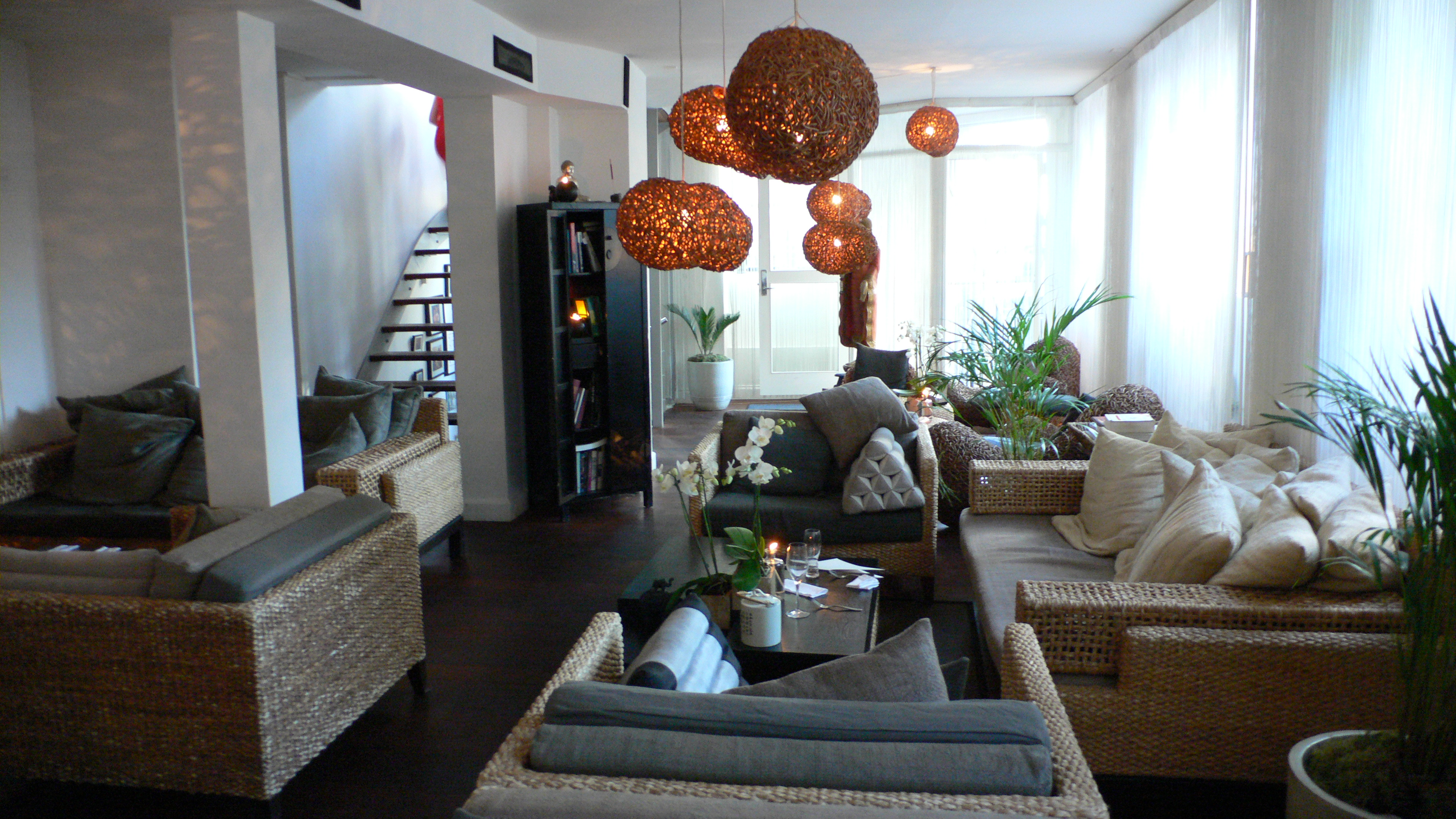 kiin.dk/ This photo links to my blog article at This photo is licenced under Creative commons for use including commercial on condition that you link back to or credit See my profile for more detail.